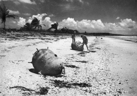 Two Australian soldiers inspect Japanese naval mines which have come ashore at Mindil Beach, Darwin. AWM image P04079.005